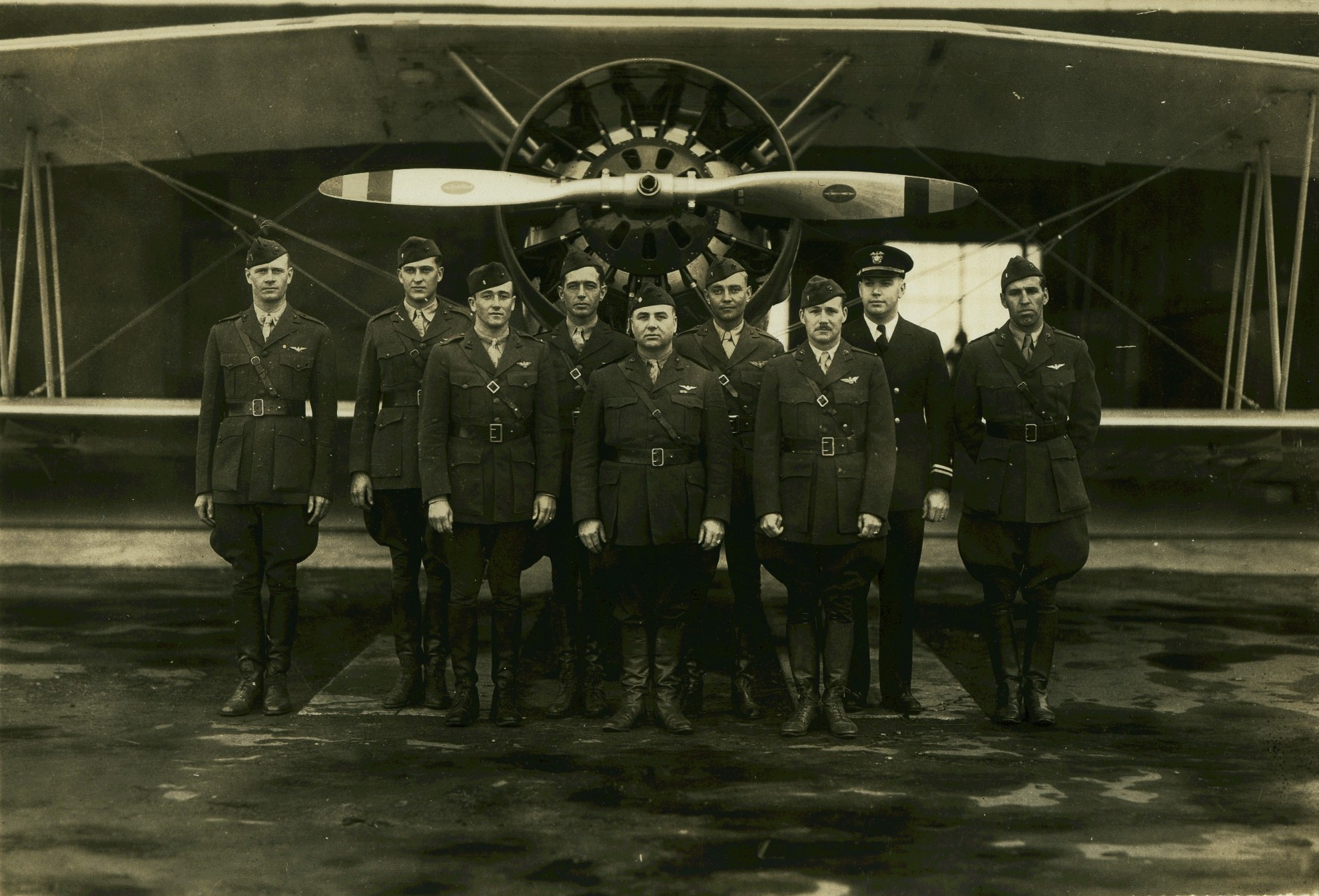 "USMCR Squadron, Mpls, Melvin J. Maas, C.O." From the Avery R. Kier Collection (COLL/3871) at the Marine Corps Archives and Special Collections OFFICIAL USMC PHOTOGRAPH